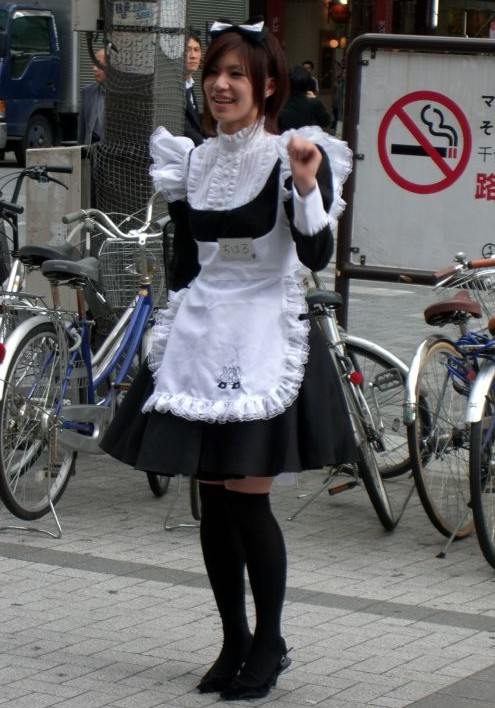 She was only too happy to pose for some fans!09 Maid Cafe - Akihabara